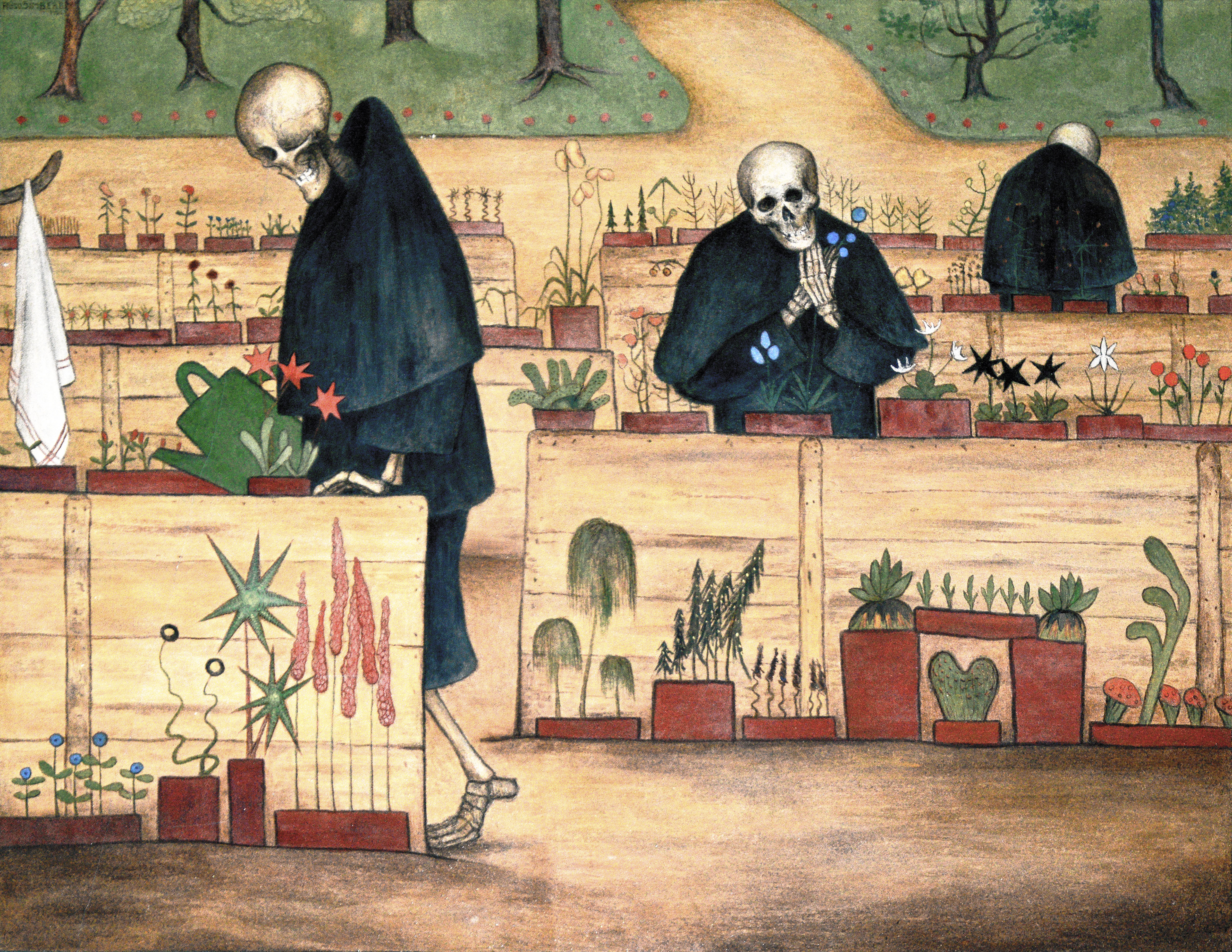 "The Garden of Death" painting exposed at Tampere Cathedral - Finland